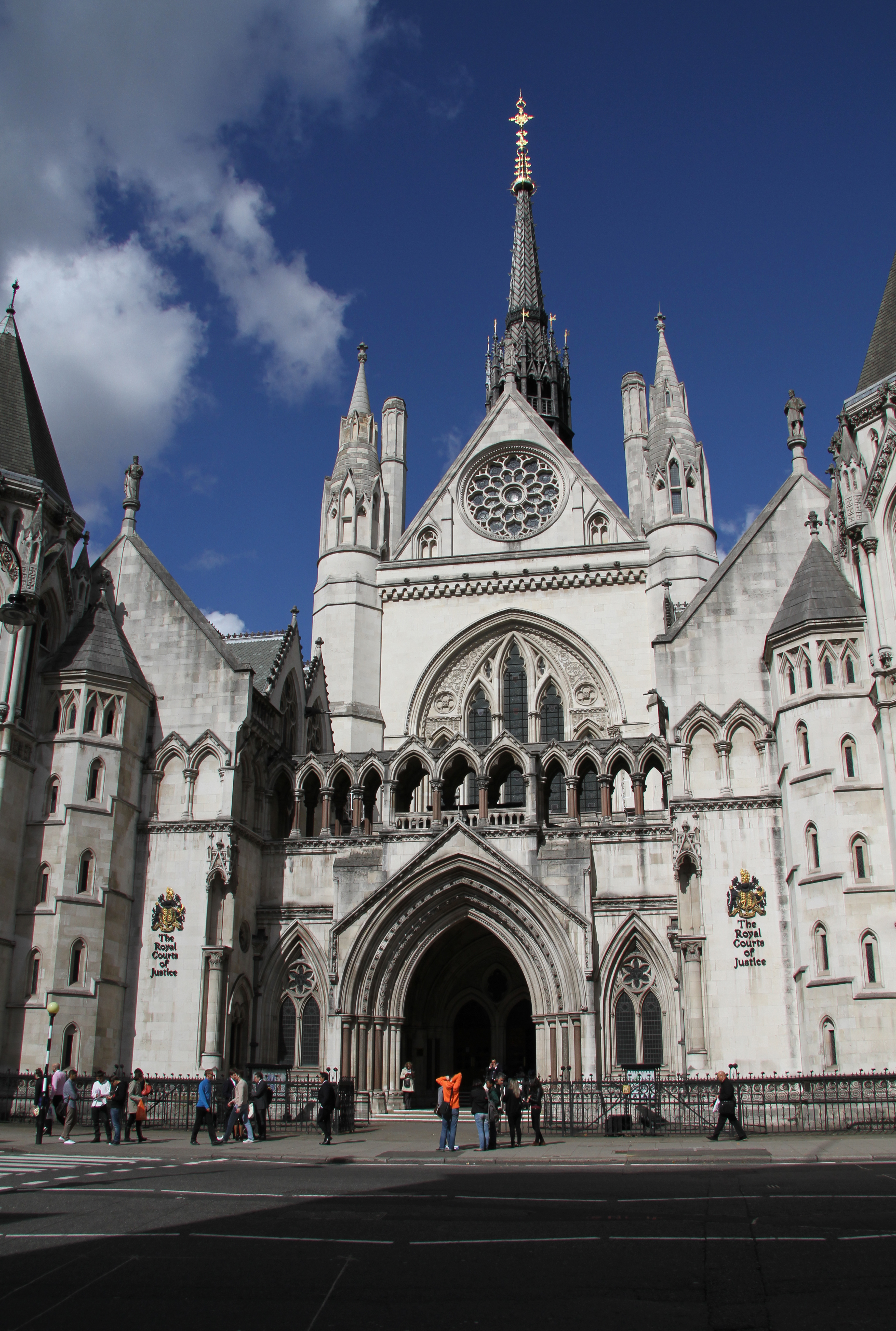 The Royal Courts of Justice 5